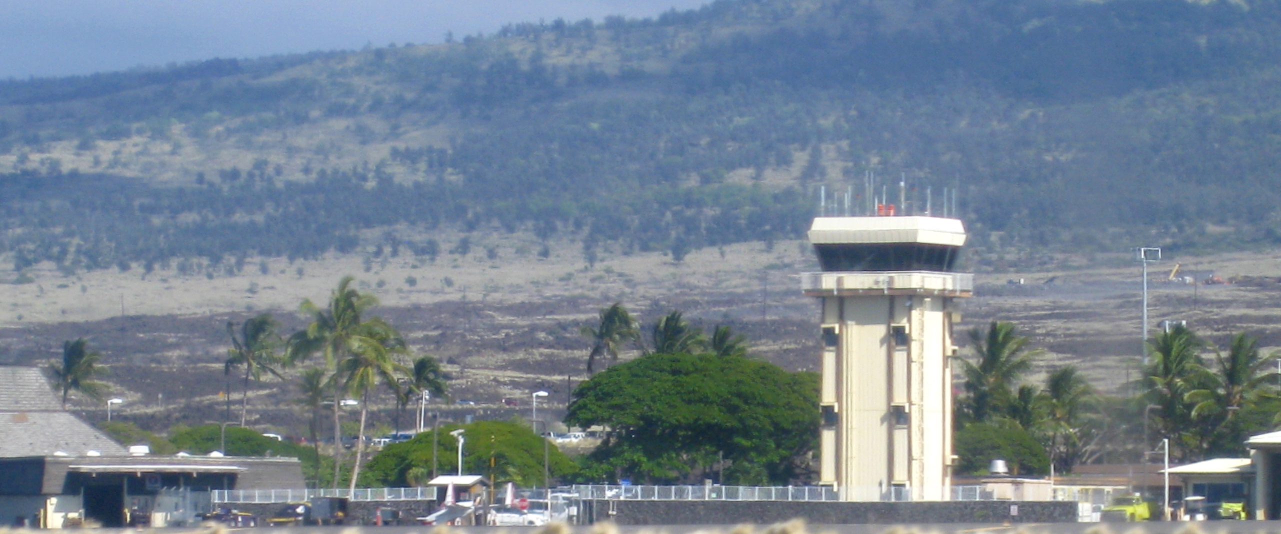 Control tower at Kona International Airport (KOA) in December 2009.